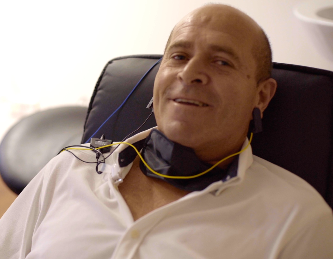 neurofeedback for sleep